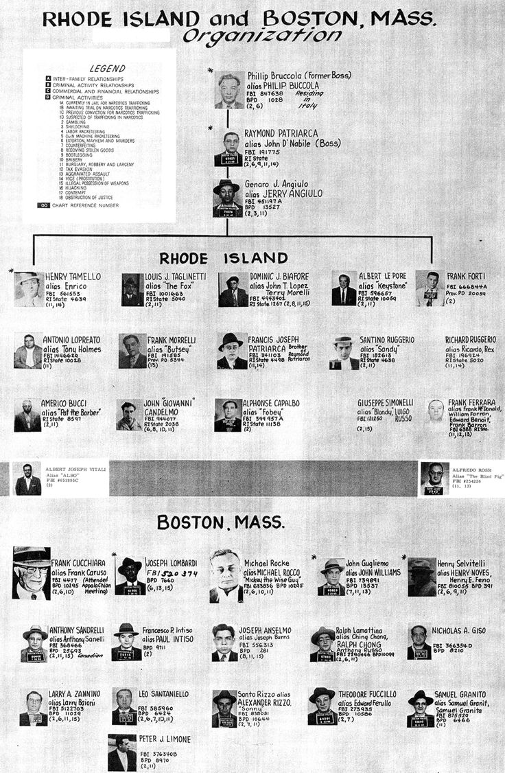 FBI's 1960's Patriarca crime family chart